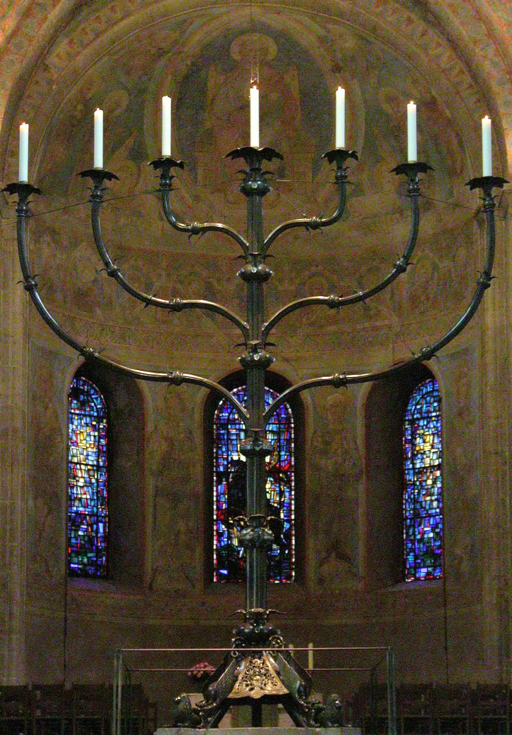 Brunschwick Cathedral, romanesque candlestick (Menorah)